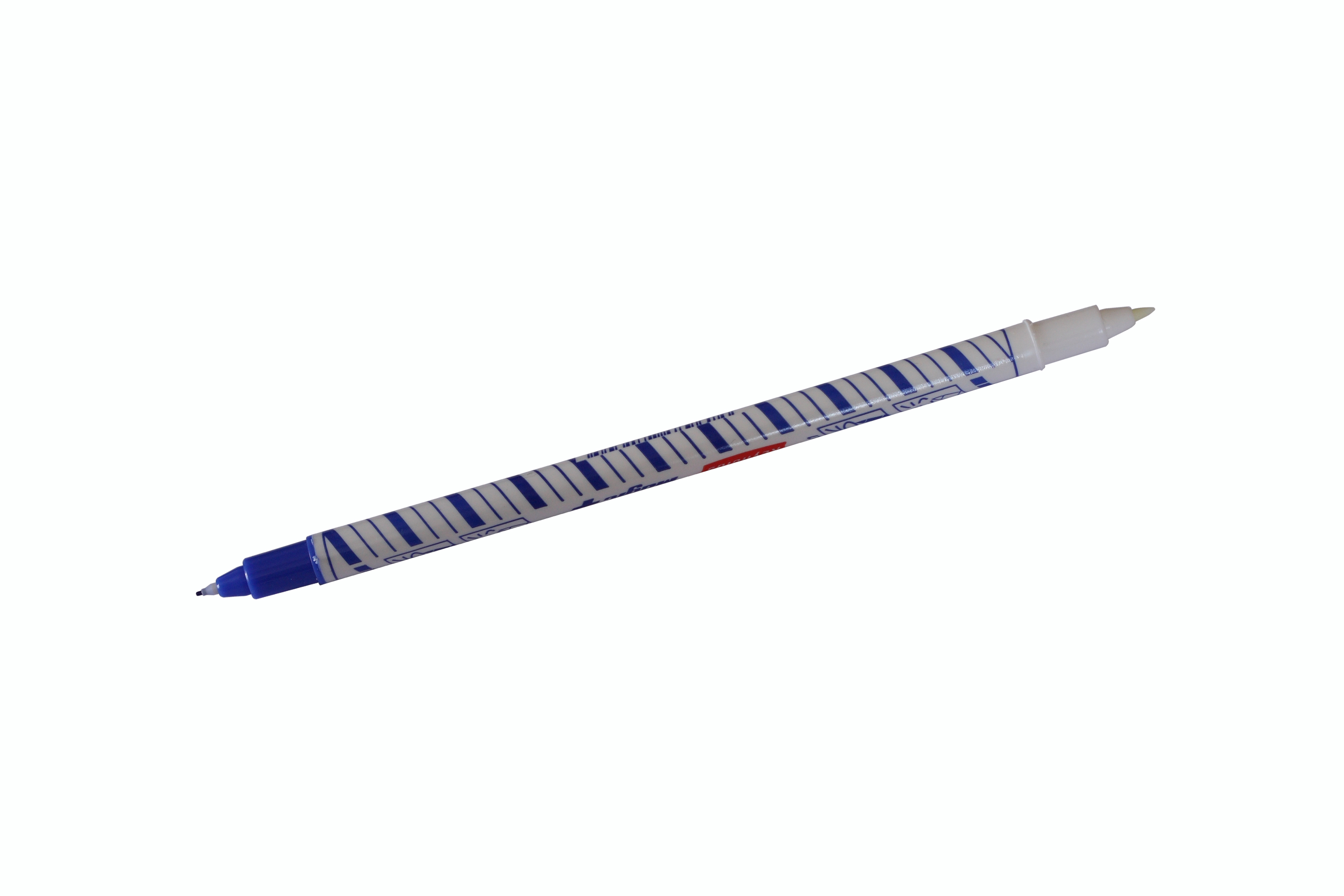 An ink eraser.